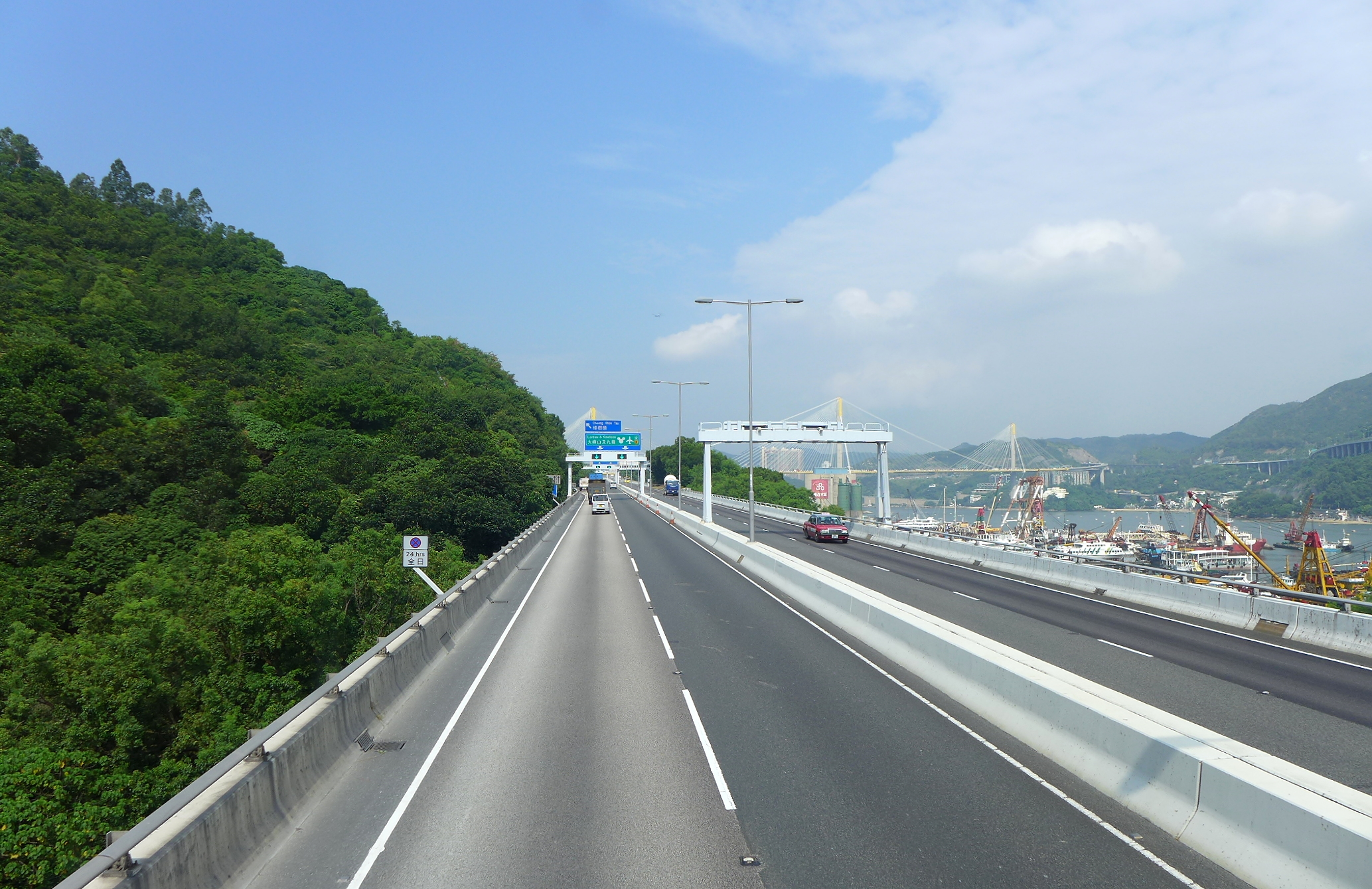 Tsing Yi North Coastal Road